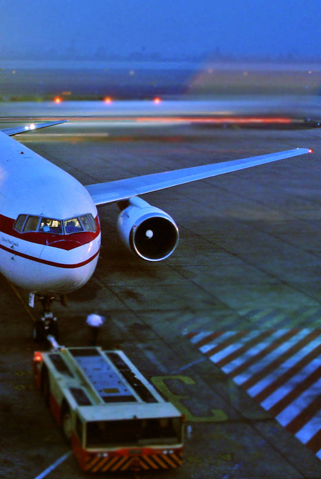 An Air Mauritius aircraft ready to depart while an Air Sahara taxies behind. Shot from the viewing gallery at Chennai Airport